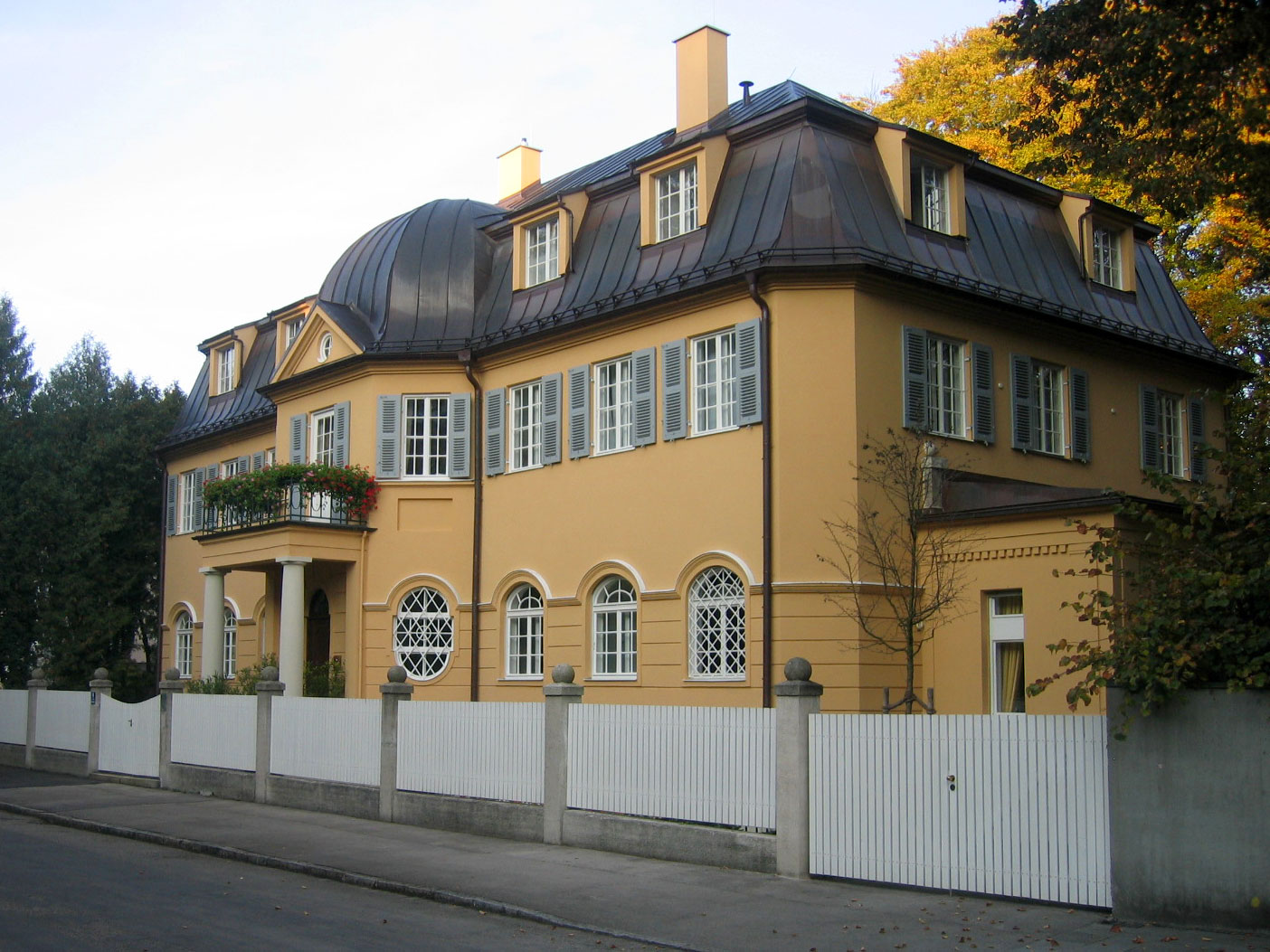 Apostolic Exarchate for the catholic Ukrainians, Munich